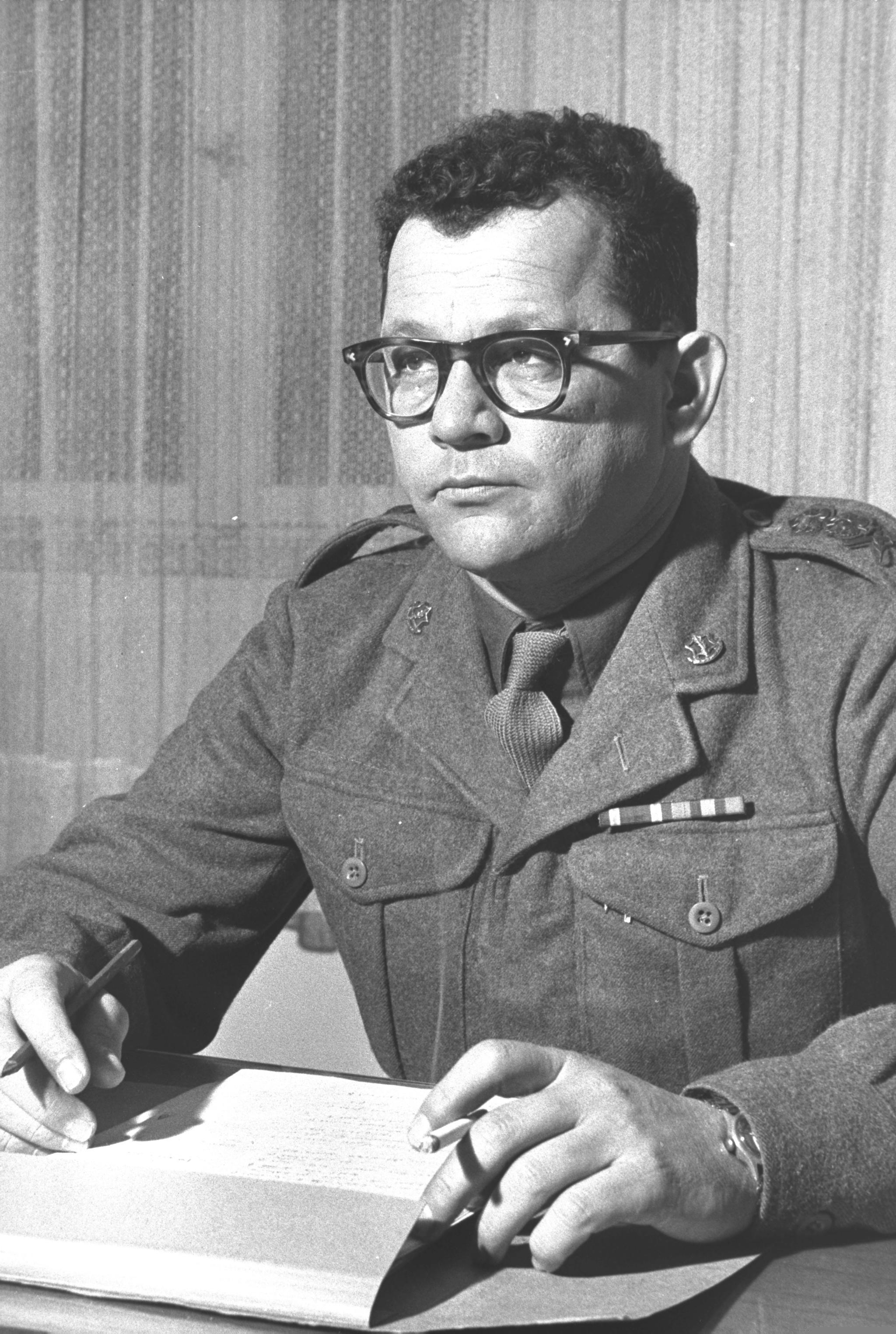 Haim Laskov, Israel Defense Forces Chief of Staff. February, 1958